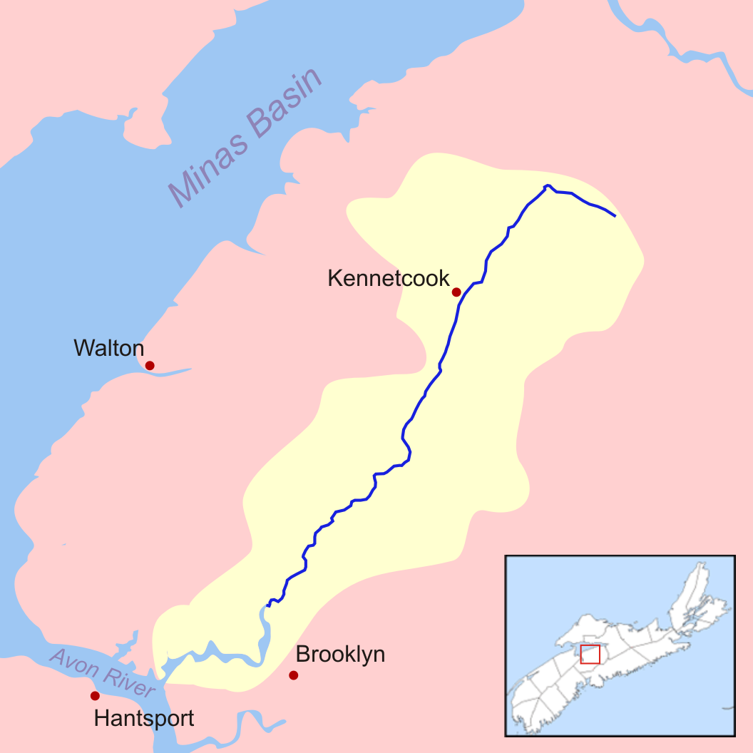 Map of Kennetcook River watershed in Nova Scotia. Created using data from the Topographical Atlas of Canada[1]. colours are based on the work of User:Andrew647 in Shubenacadie river.